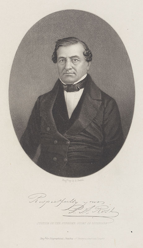 Pierre Adolphe Rost (1797-1868)